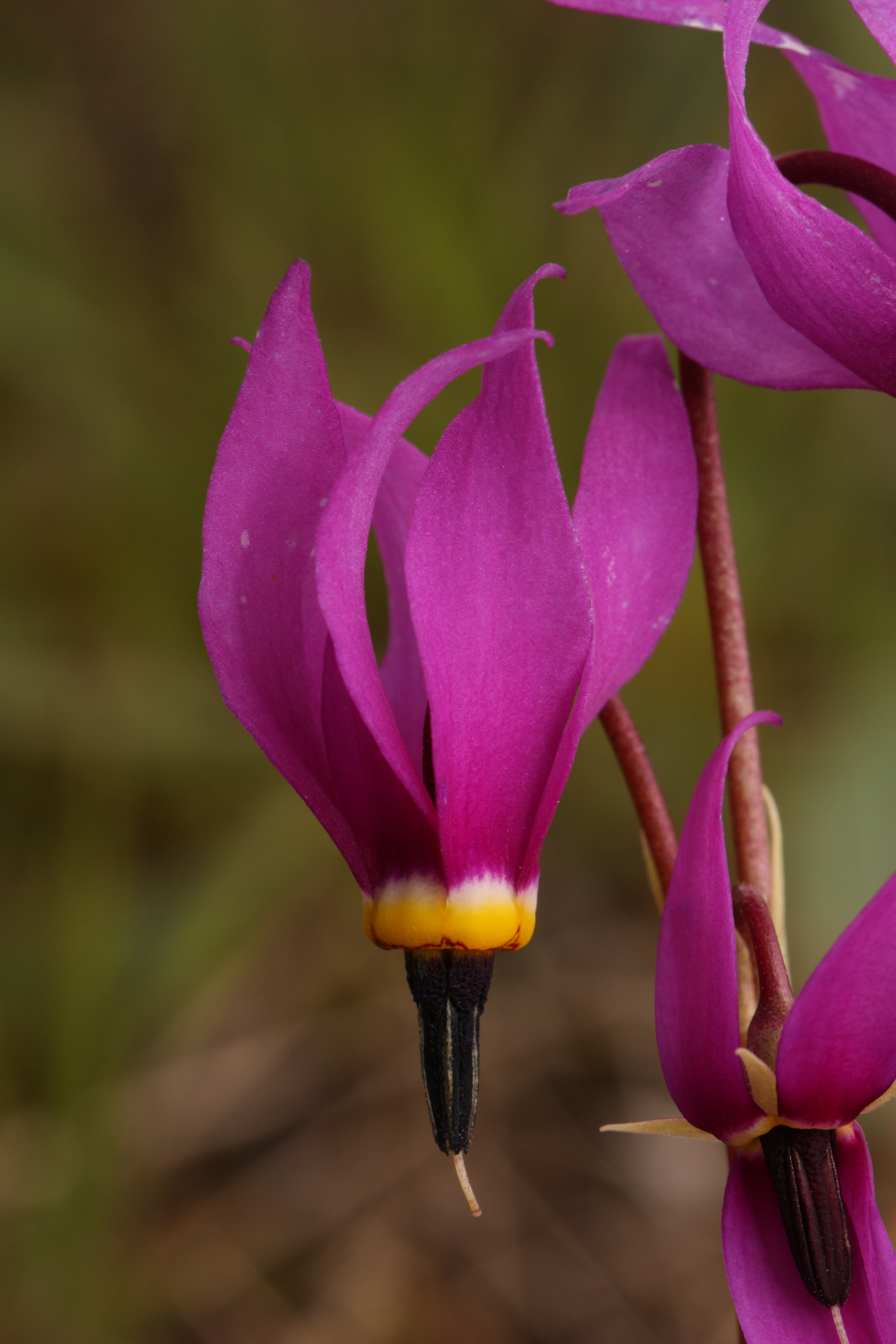 Slimpod Shooting Star, Desert Shooting Star Viewpoint location: McCall Point Trail, Tom McCall Preserve Viewpoint elevation: 487 meter (1598 ft) Location source: Garmin GPSmap 60CSx Location Datum: WGS84